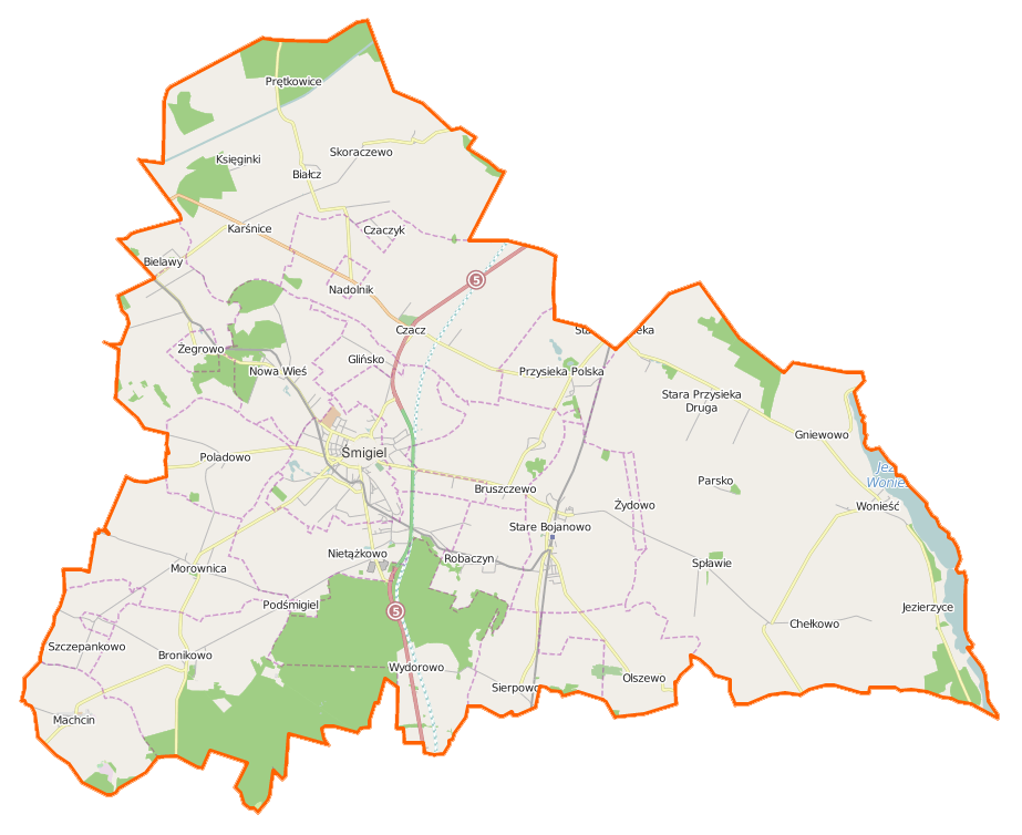 Map of Gmina Śmigiel, Poland This map of Śmigiel (gmina) was created from OpenStreetMap project data, collected by the community. This map may be incomplete, and may contain errors. Don't rely solely on it for navigation. Border coordinates52.099016.4140←↕→16.730951.9394